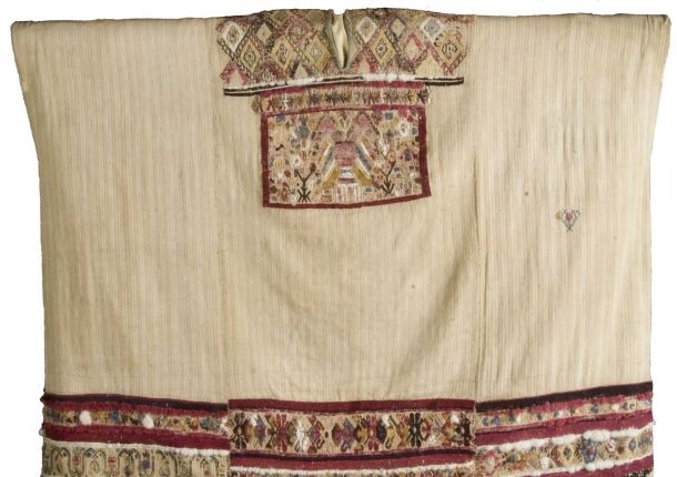 Huipil attributed to Malintzin or Malinche. The photo was taken by me, Nahin Cortés (INAH). Some scholars consider that the huipil was elaborated during the XVIII century.